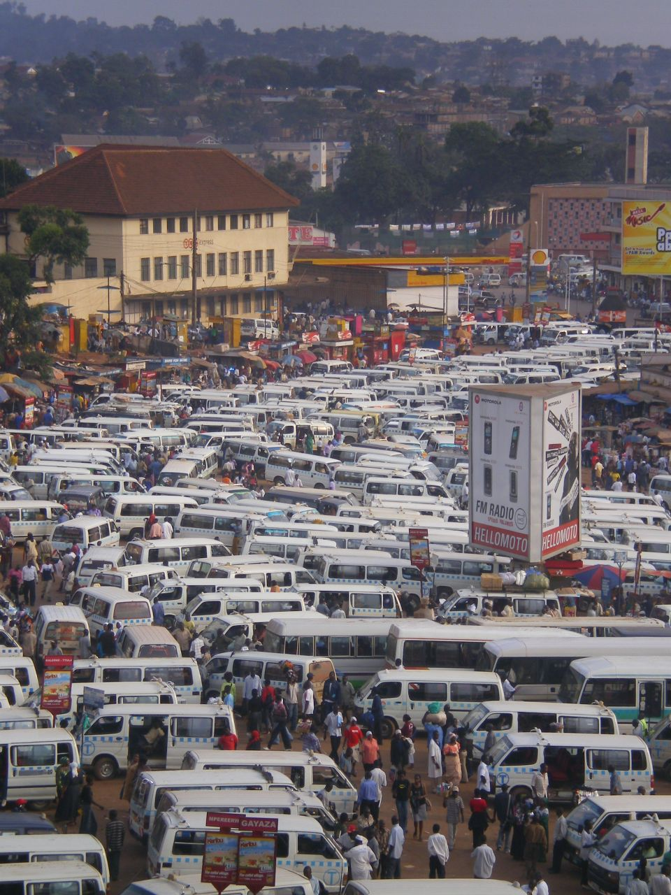 This is the taxi station at Kampala, Uganda